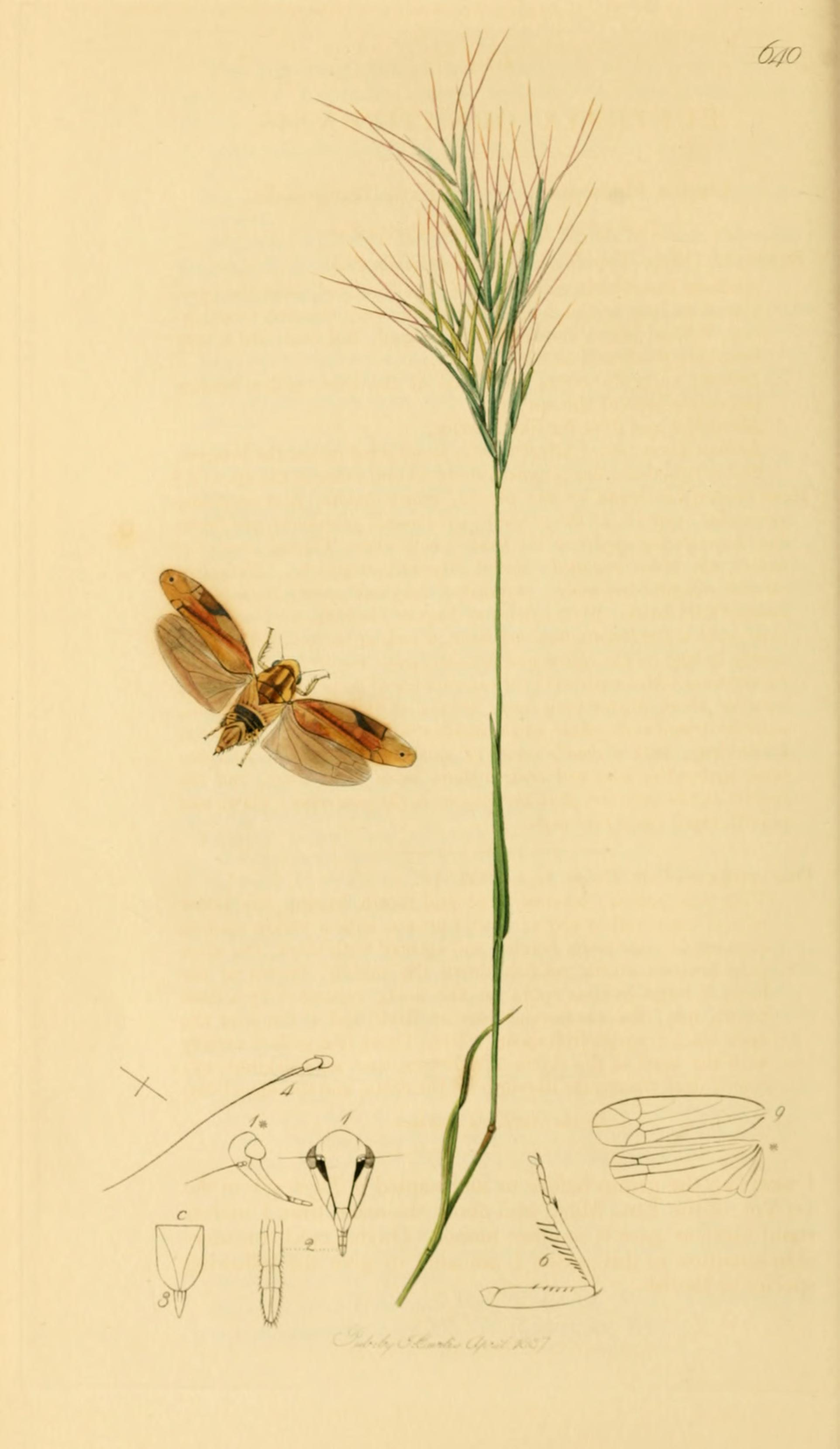 John Curtis British Entomology (1824-1840) Folio 640 Eupteryx ornatipennis Curtis.The plant is Bromus diandrus ( Great Brome-grass)